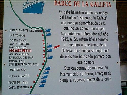 In the photo is the detail of some of the wrecks on the coast of the Province of Buenos Aires, Argentina, including the one in red color in Costa del Este, where the photo was taken.